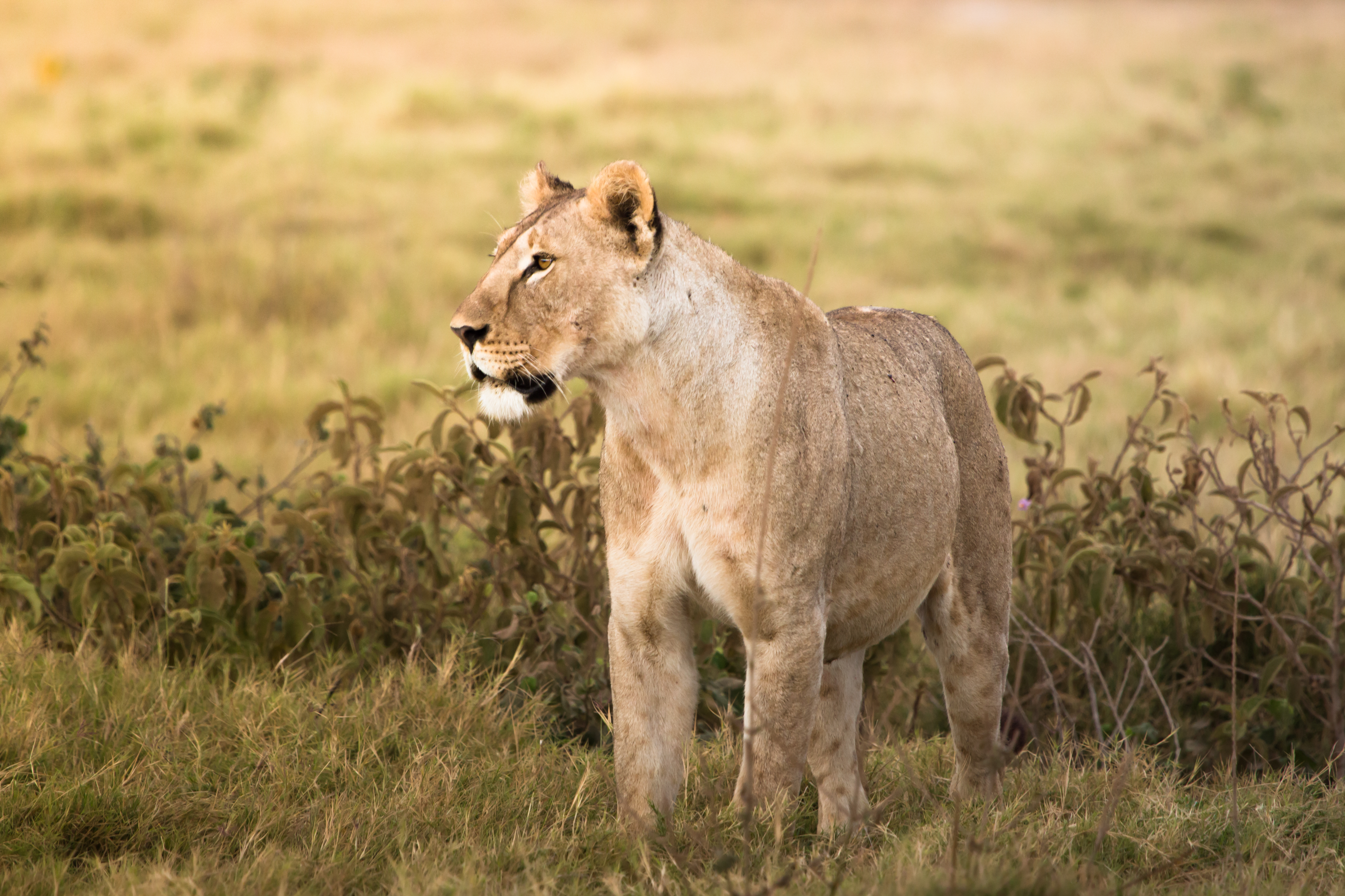 Female adult lions are freaking intimidating, especially when they walk past the car. I'll be adding a couple of pictures a day for the next few weeks. Check out the developing set here: Kenya 2013